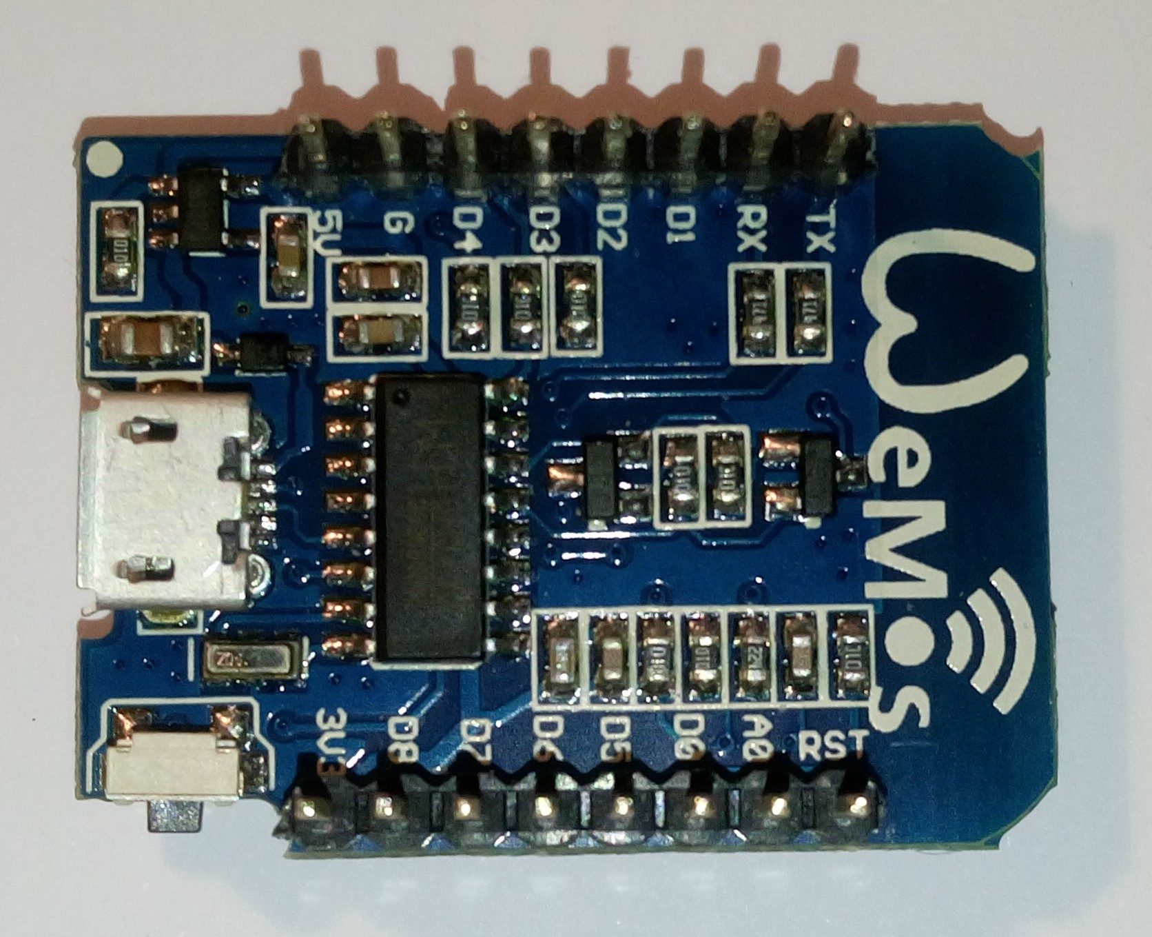 WeMos D1 Mini back